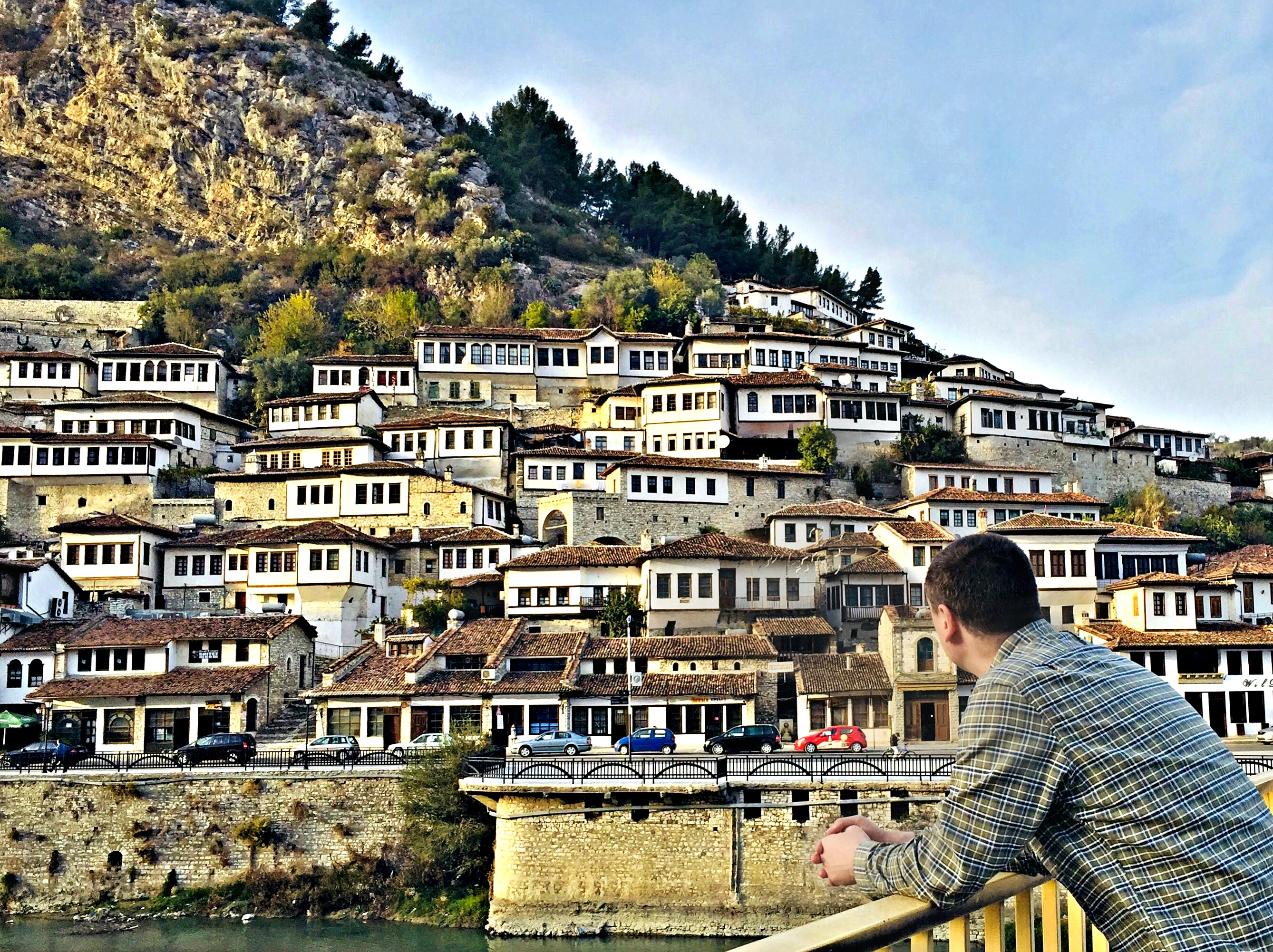 Berat, the city on the Osum River in central Albania